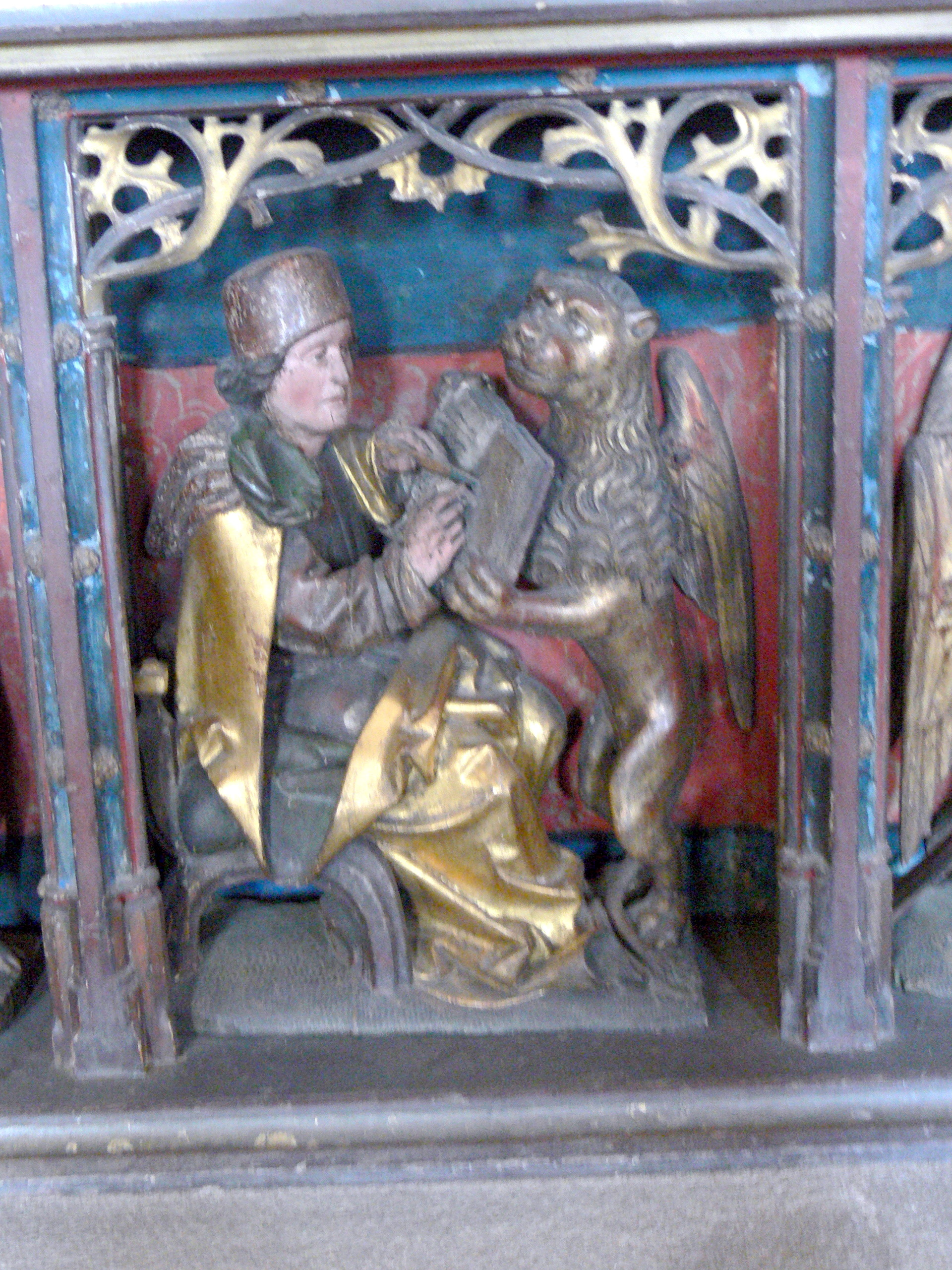 Schwabach - City Church. Altar of the shoemakers ( 1510 ): Mark the Evangelist.